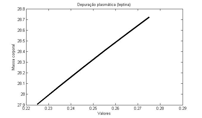 Clearance rate in leptin model